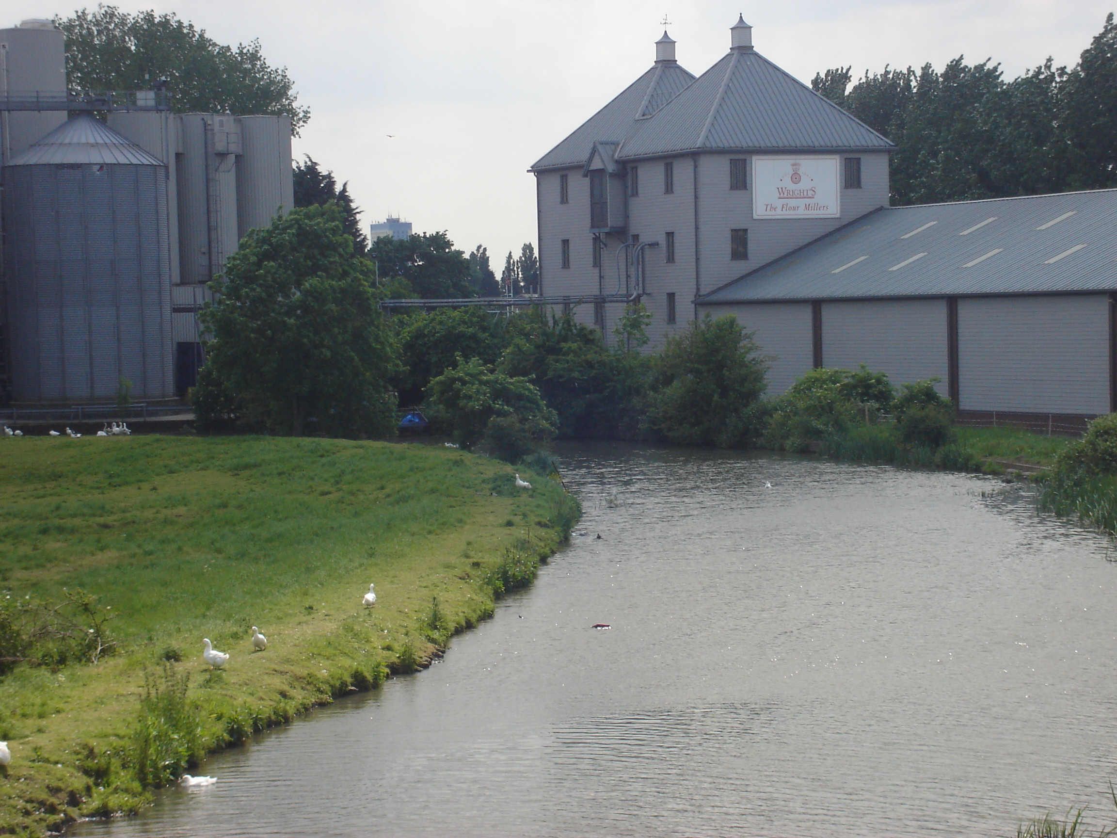 Picture of Wright's Flour Mill